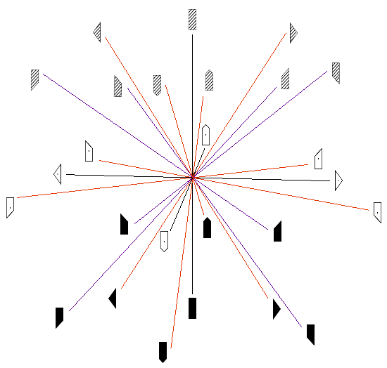 From the model of the combined Platonic Solids (Cube, Octahedron and Icosahedron) 26 directions are derived, all from the center of the body directing toward the vertices of the solids. Rudolf Laban developed symbols to notate these directions. See Laban Movement Analysis and Space Harmony.